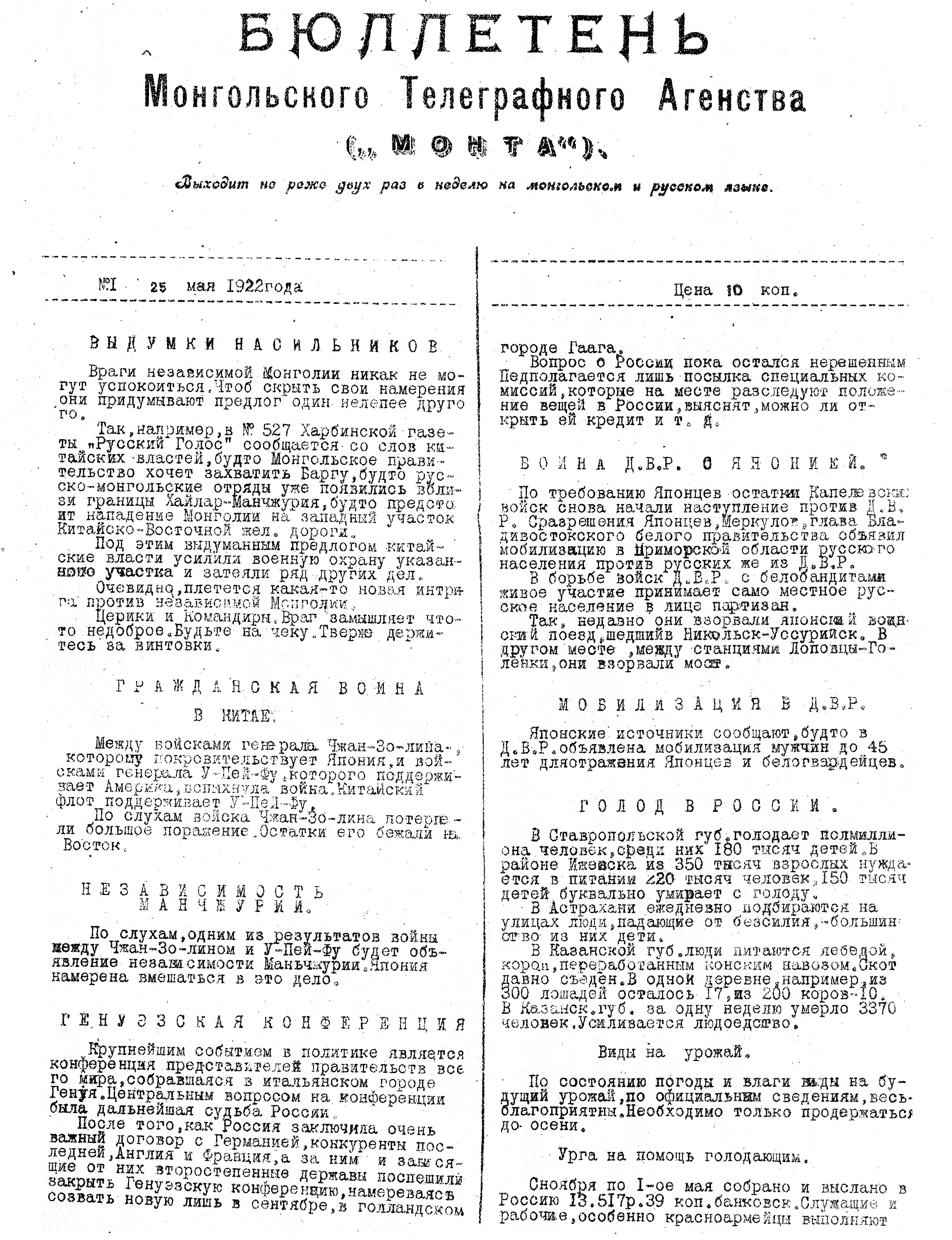 "Бюллетень МОНТА" сонины 1922 оны дугаар.